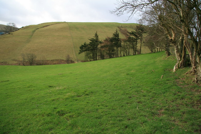 Pasture at Cwmbyr Sheep pasture at around the 400m mark between Cwmbyr and Ty'n-y-celyn, protected in part by thin shelter belts of conifers and deciduous trees